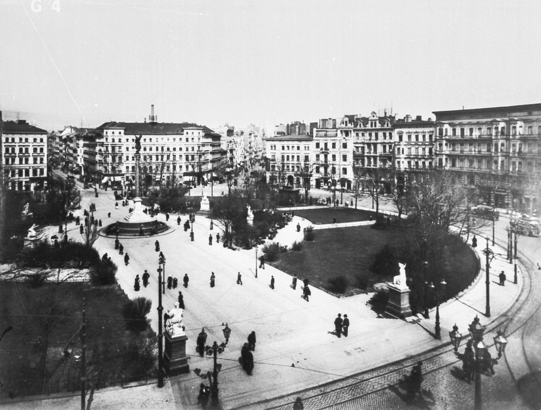 Berlin, Mehringplatz. View to Northeast.